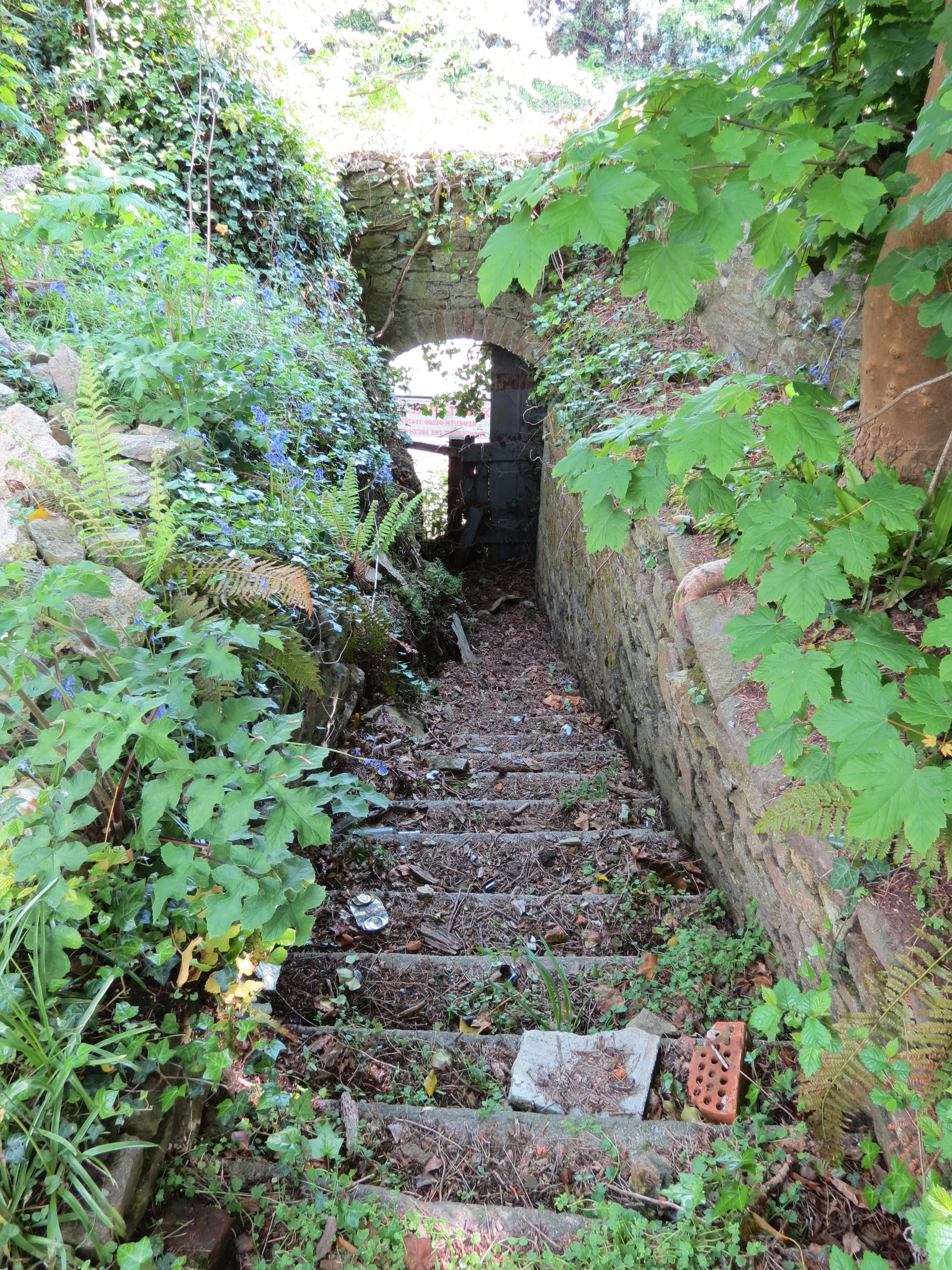 The original granite steps leading into the Congregationalist cemetery